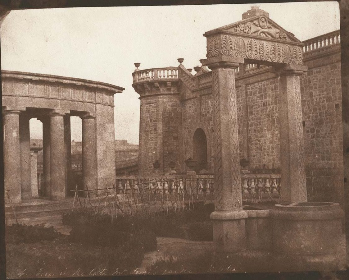 Rev. Calvert Richard Jones, “View in the late Mr. Frere’s Garden, Valetta” Malta, 1846, salt print from a calotype negative, 16.8 x 21.2 cm